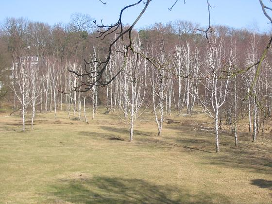 The nature reserve "Hundekehlefenn" in Berlin